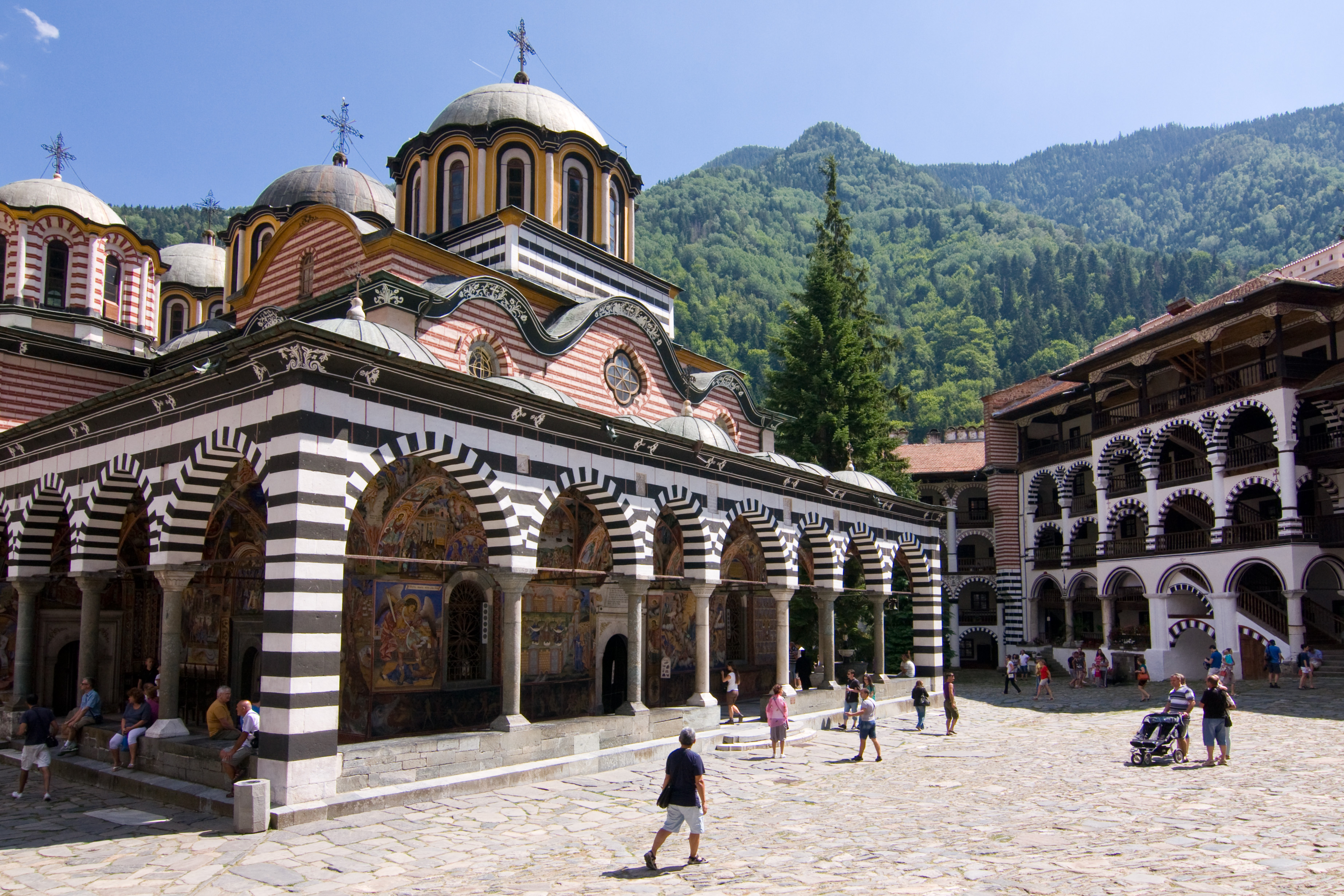 Looking south.